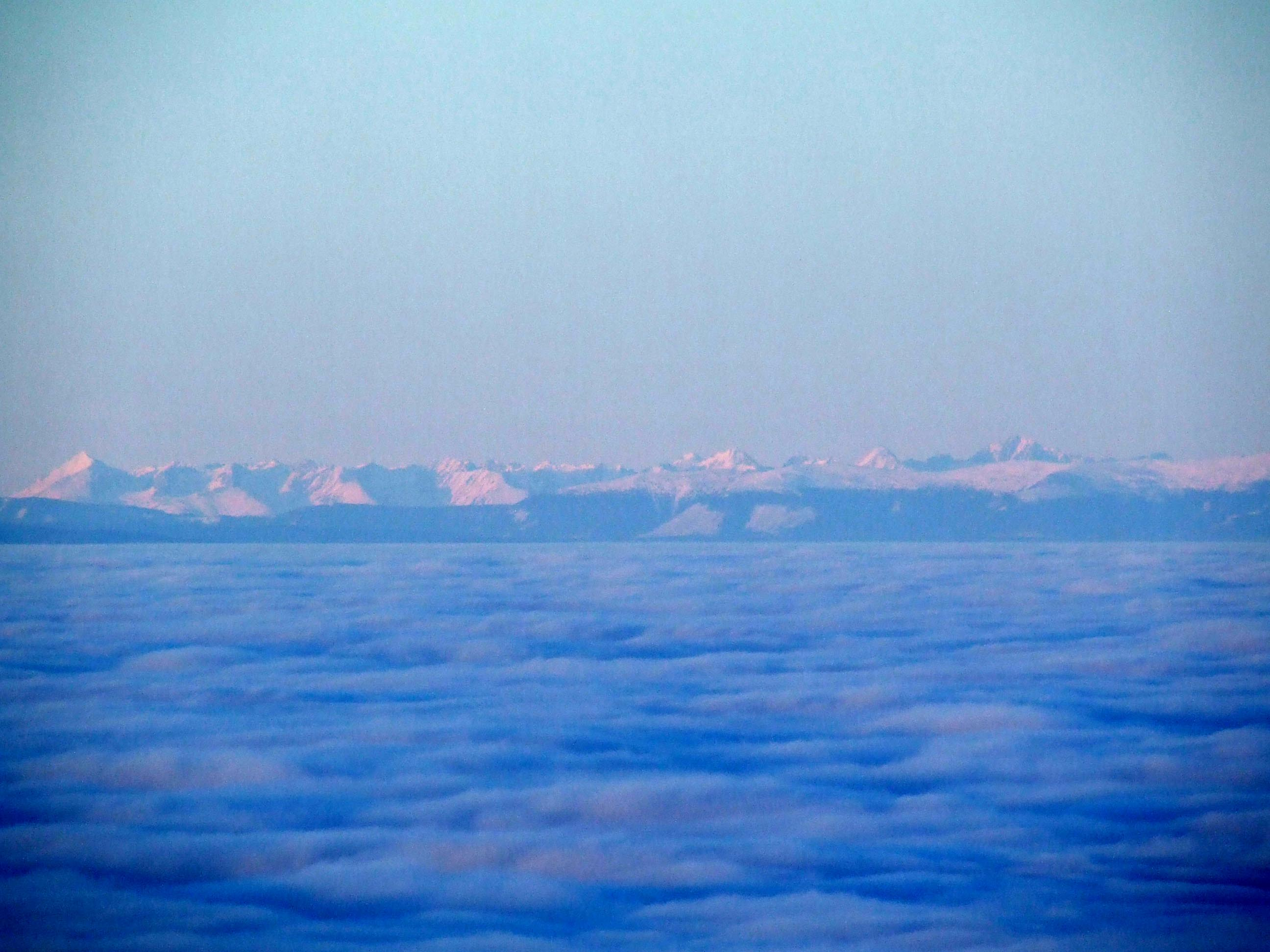 The High Tatras seen from the Kékes, the highest peak of Hungary